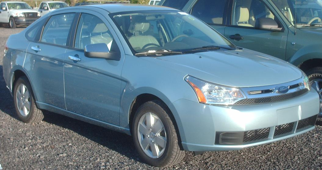 2008 Ford Focus photographed in Montreal, Quebec, Canada.